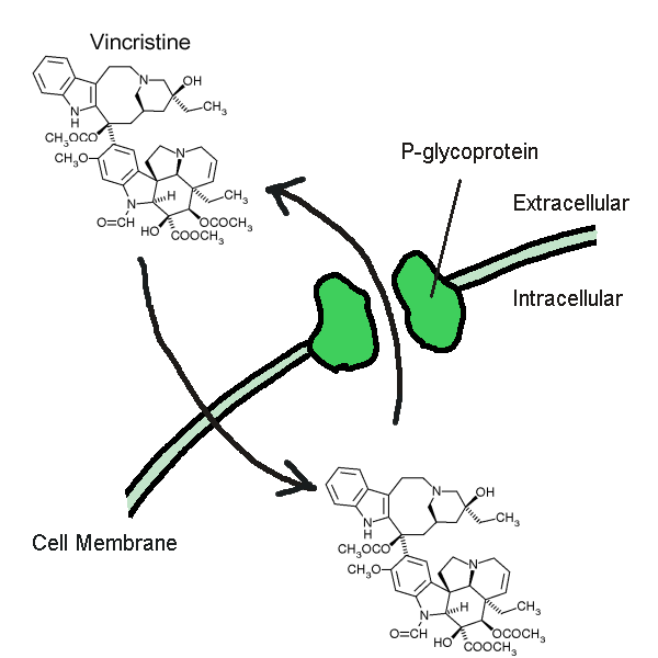 Anticancer agent Vincristine is exported to extracellular region by P-glycoprotein(P-gp).